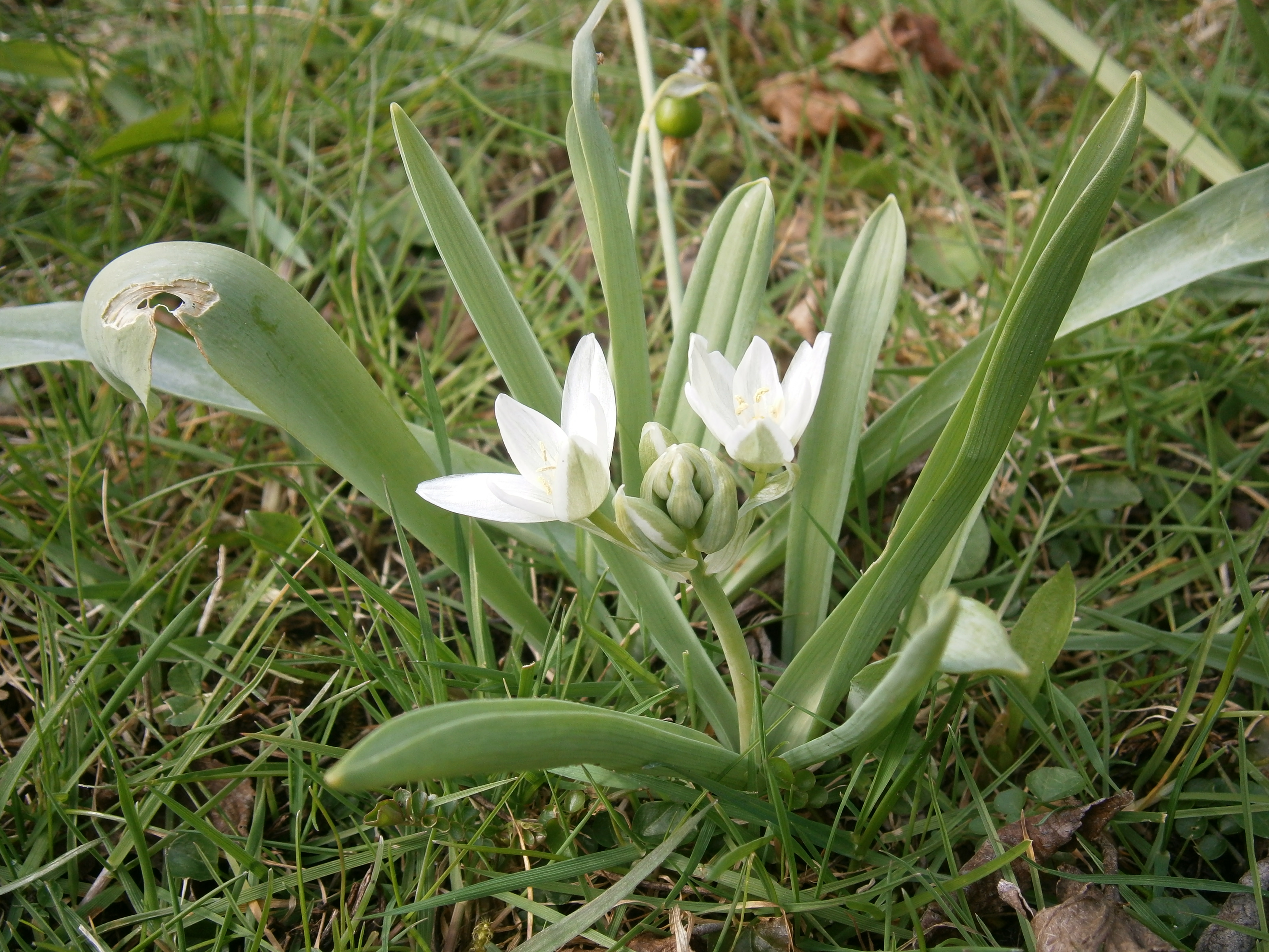 Ornithogalum balansae